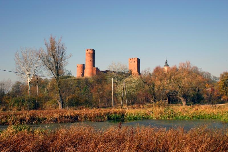 Czersk Castle in Poland